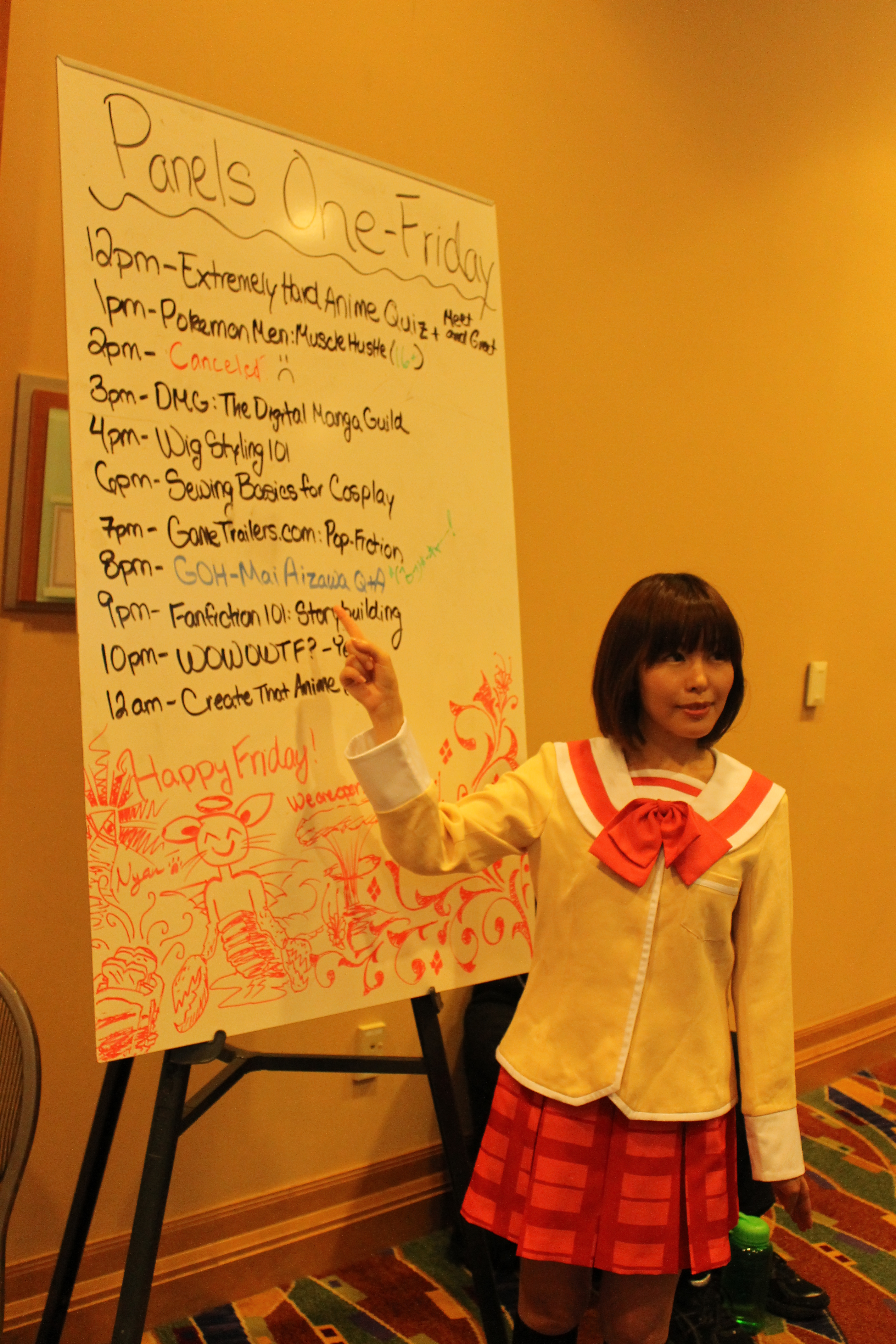 Mai Aizawa at FanimeCon 2012.